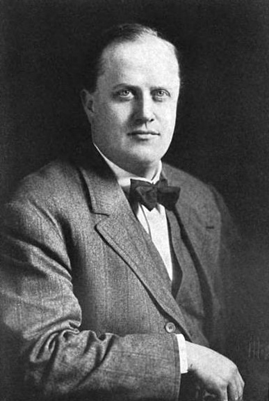 Photograph of Frederick Lovett Taft, a lawyer practicing in Cleveland, Ohio, in the United States, taken about 1910.